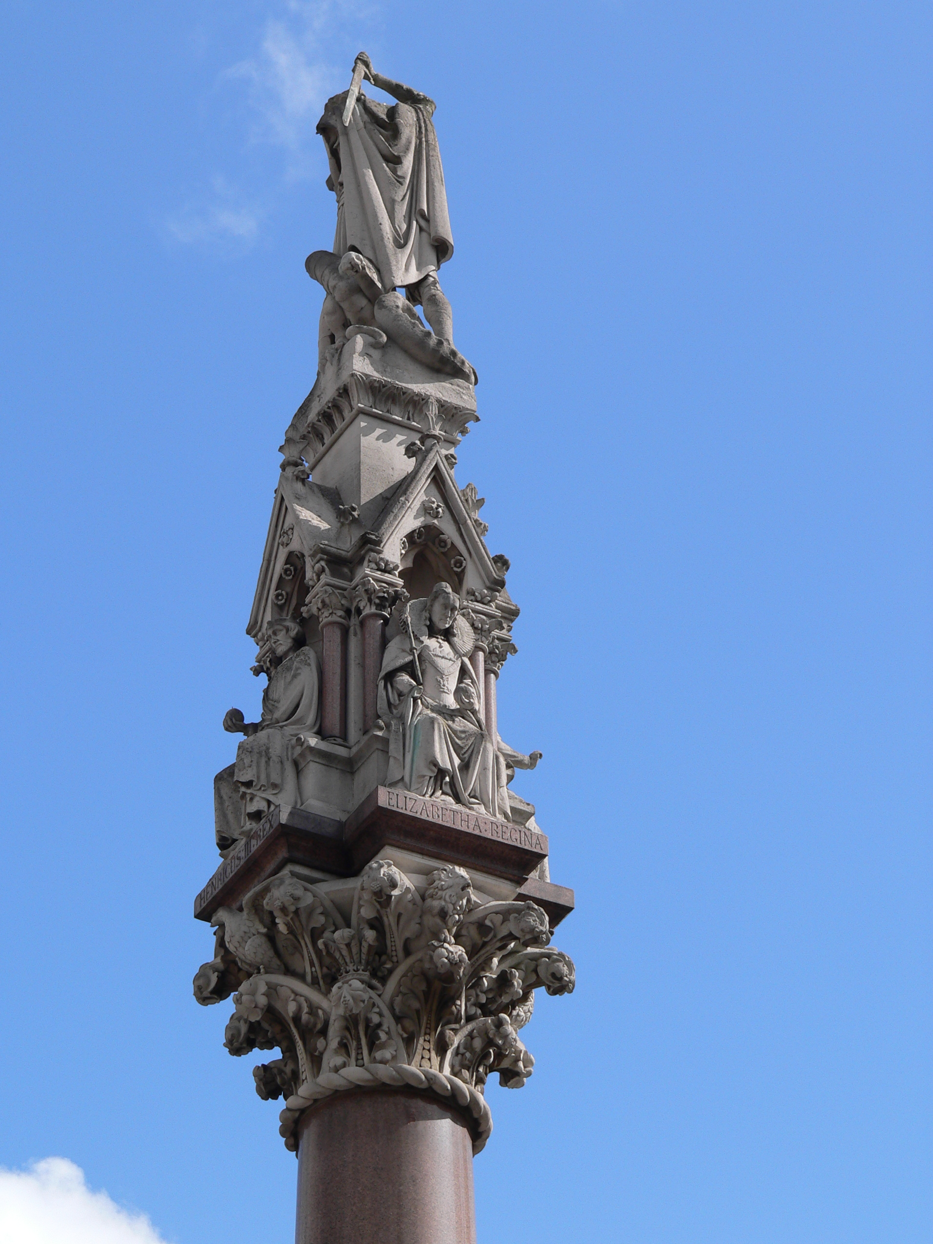 Object near the Westminster Abbey